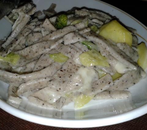 Pizzoccheri Valtellina style